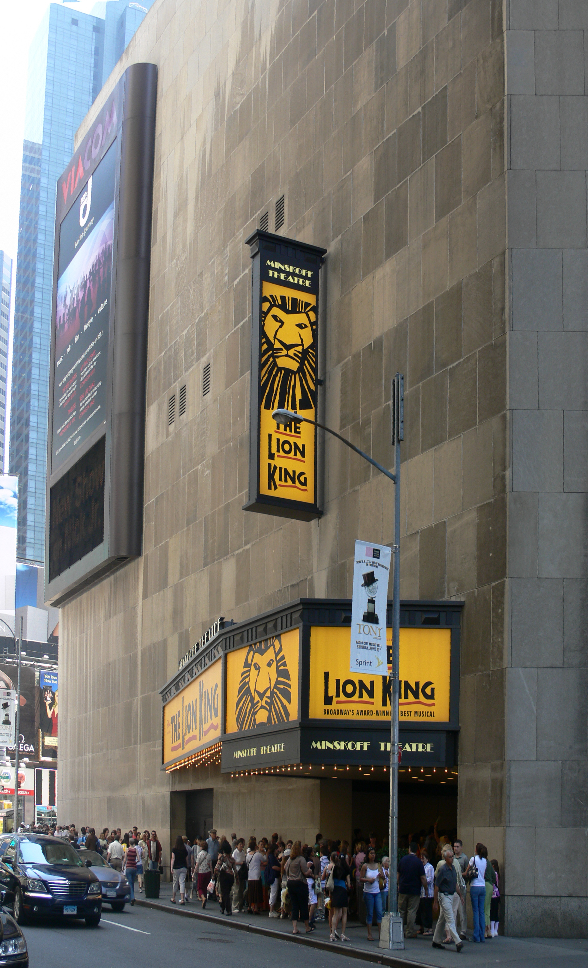 Minskoff Theatre, showing the musical The Lion King 1515 Broadway, Manhattan, New York City